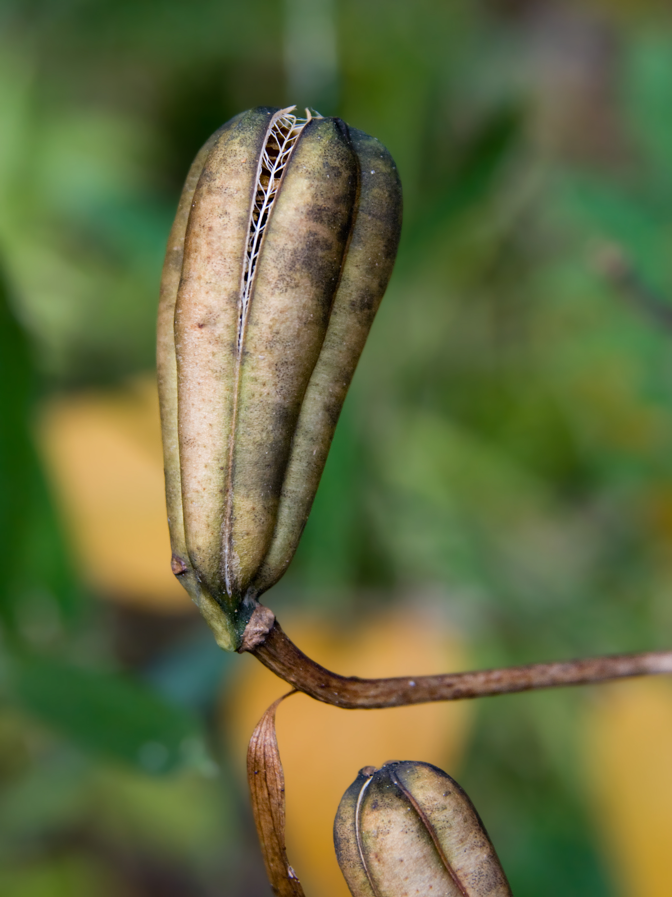 Lilium auratum